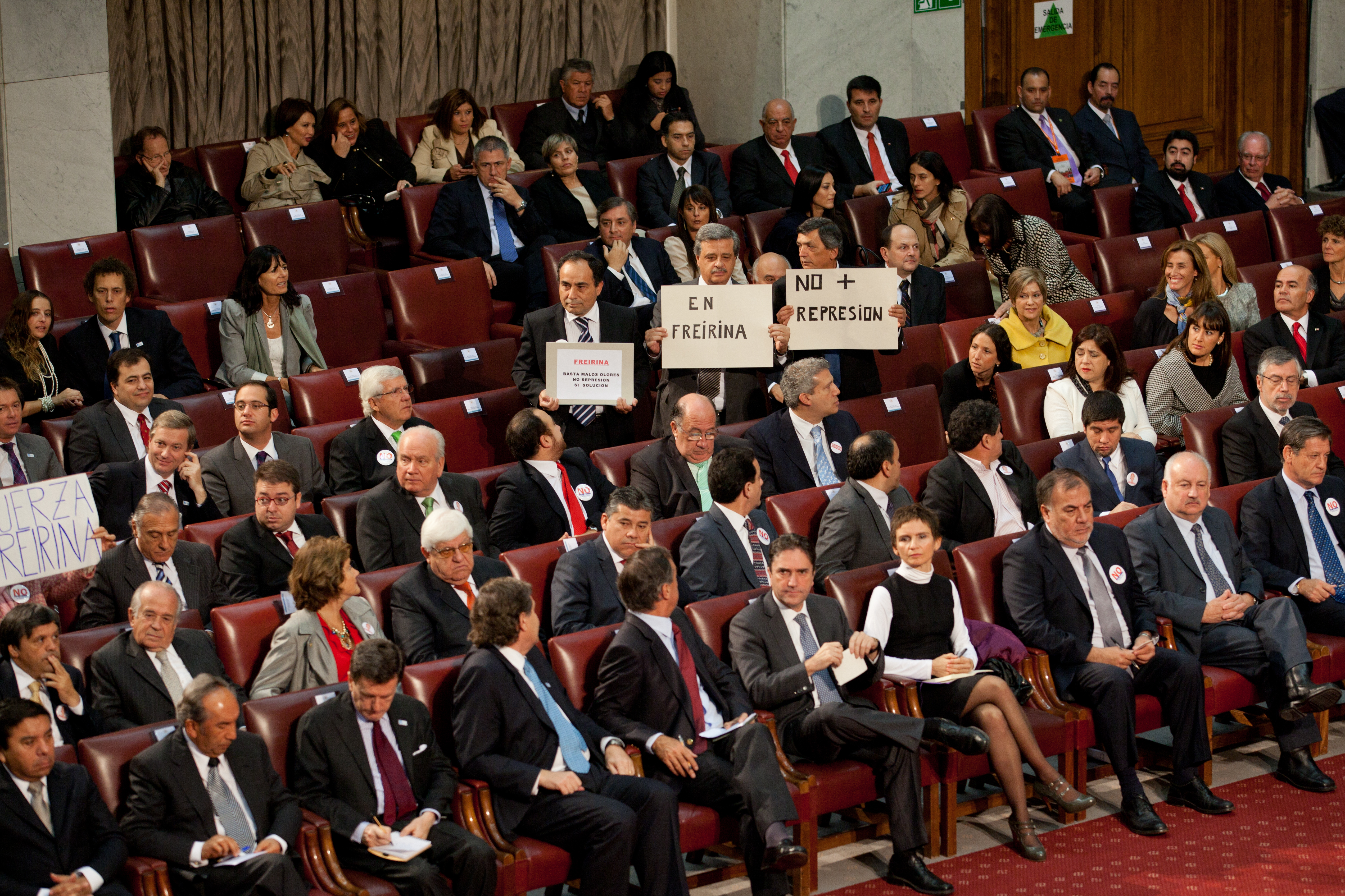 Photographic collection of the Library of the National Congress of Chile.